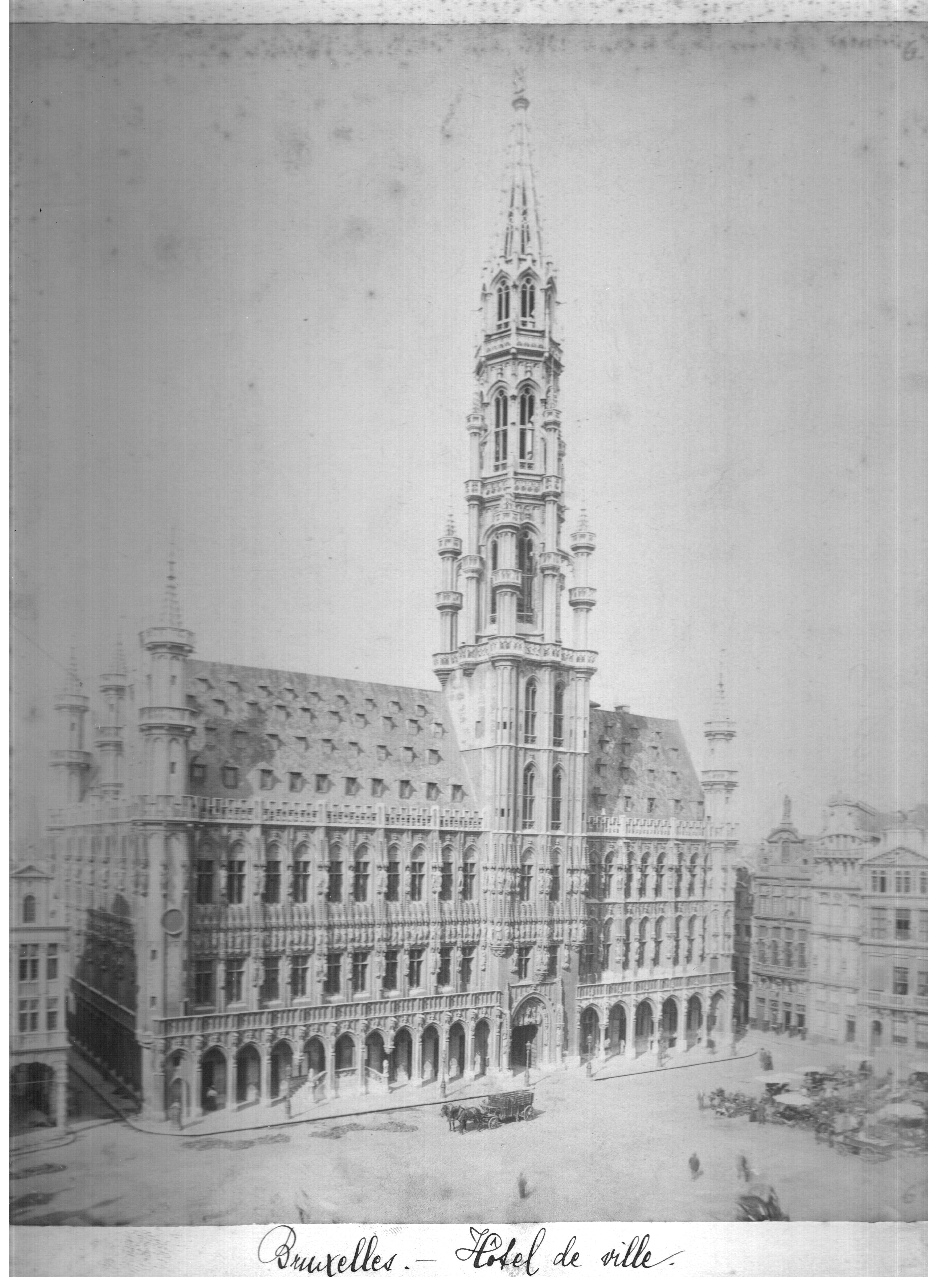 Unknown photographer (scanned by Derzsi Elekes Andor). Size: 23 cm x 30,2 cm. The Town Hall (French: Hôtel de Ville